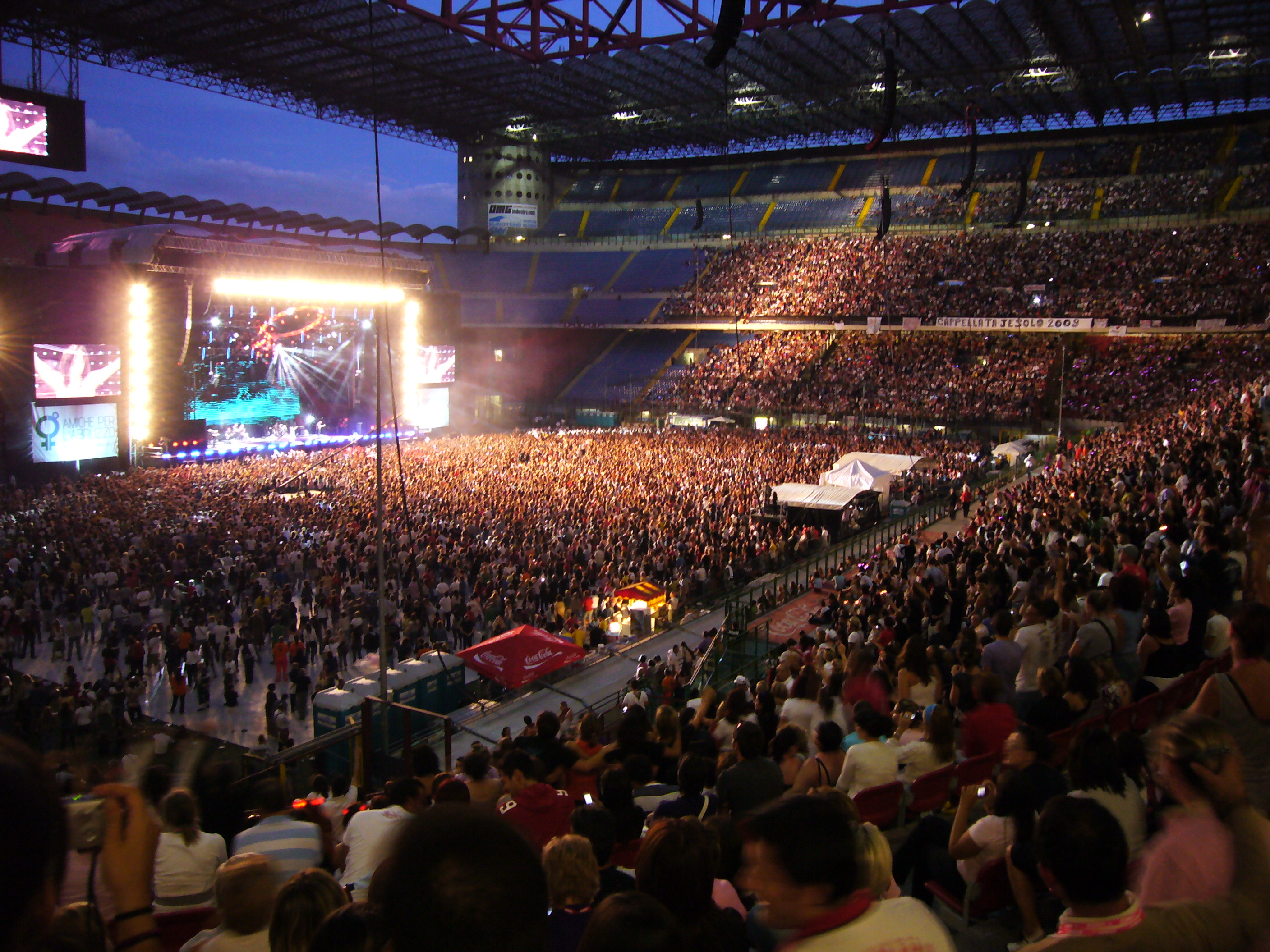 Amiche per l'Abruzzo concert in Milan, Italy.